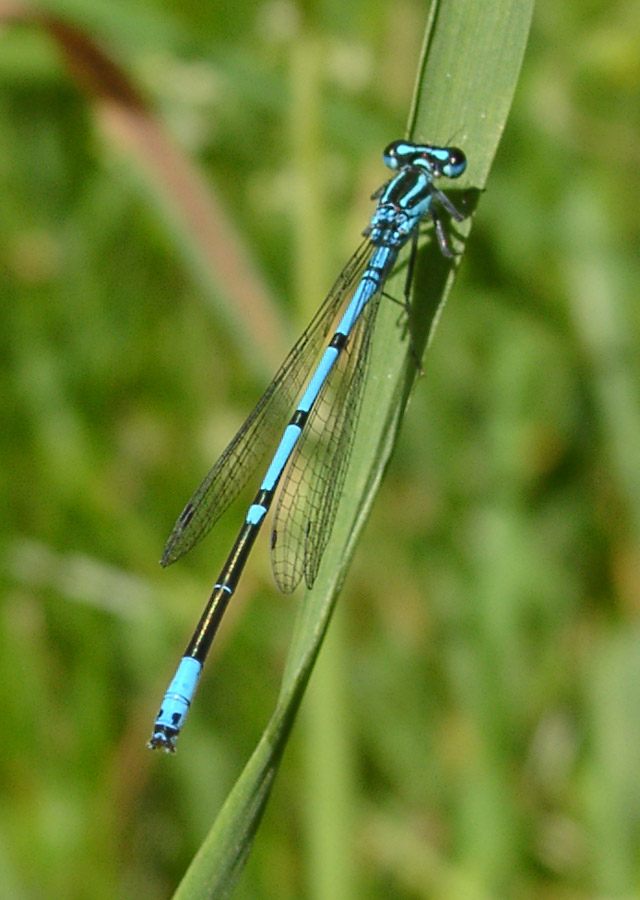 Azure Damselfly